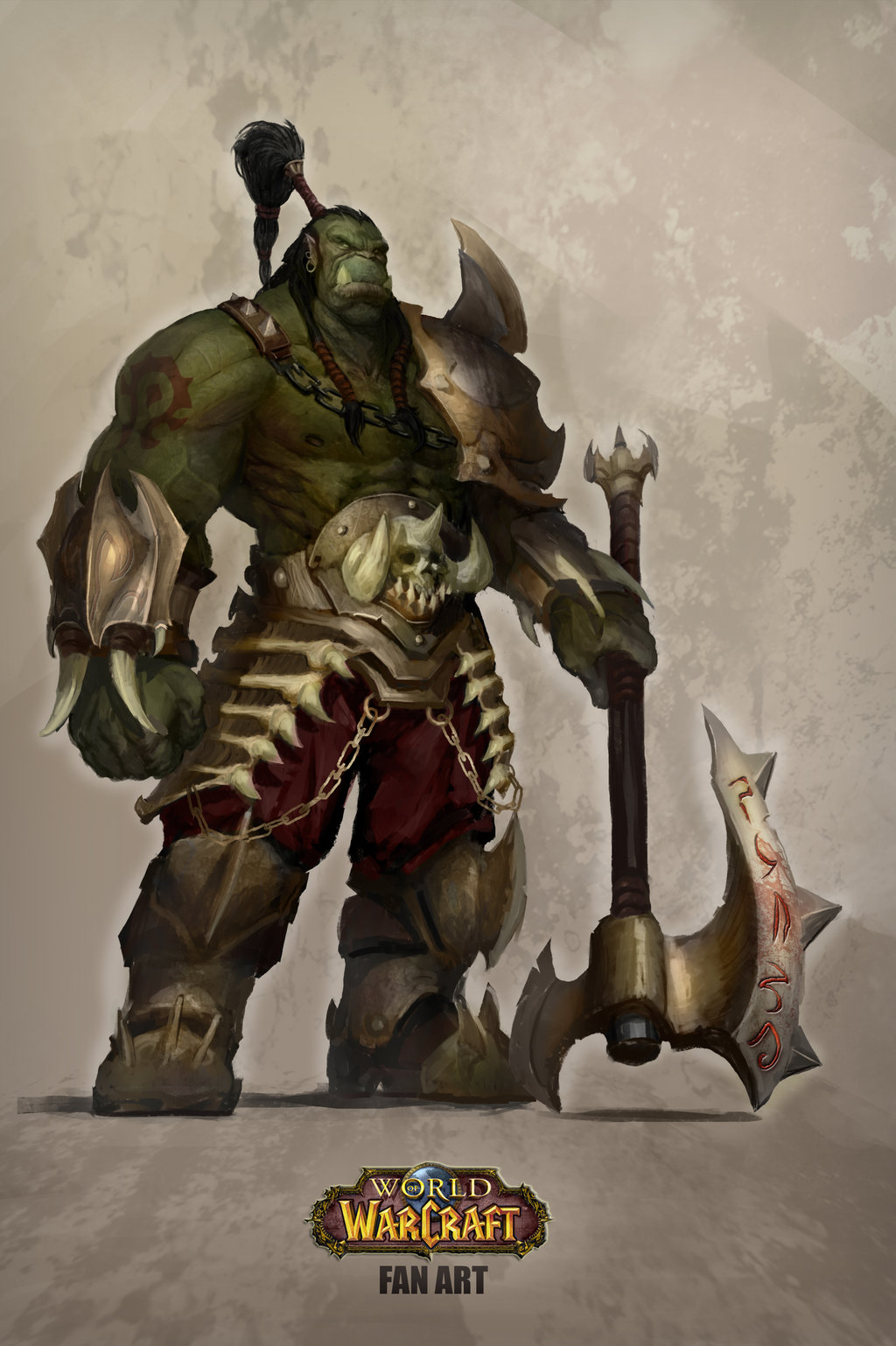 World of Warcraft Orc grunt by Lucas Salcedo.